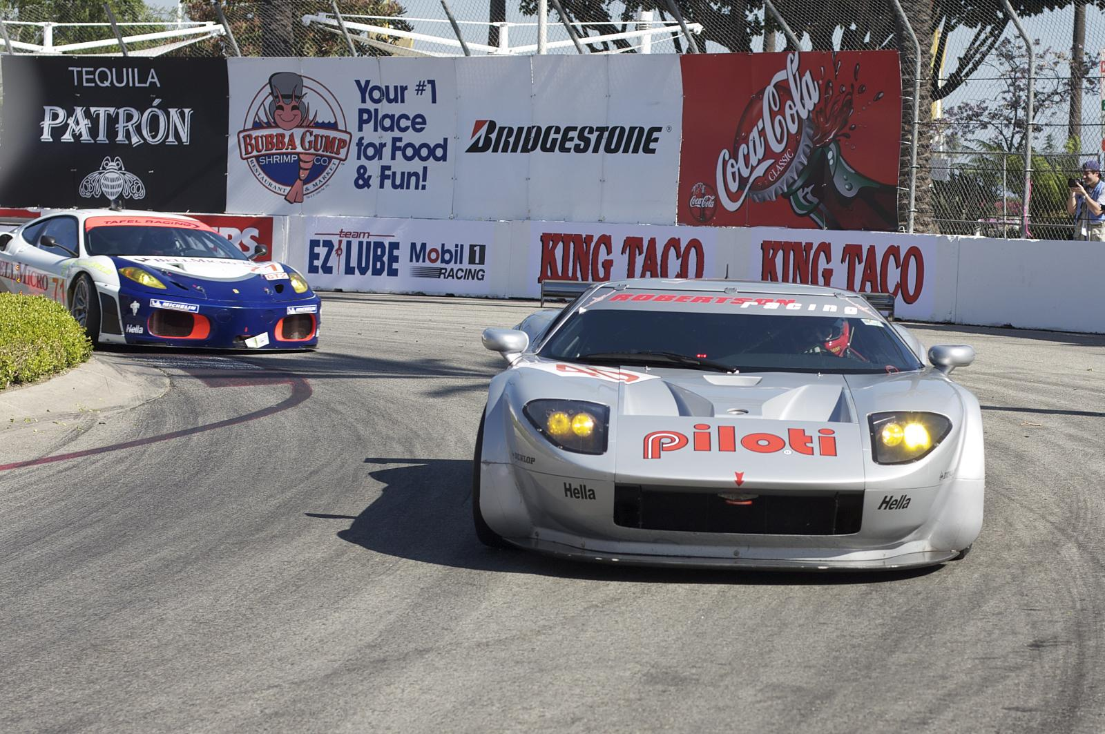 Roberston Racing's Ford GT Mk.VII